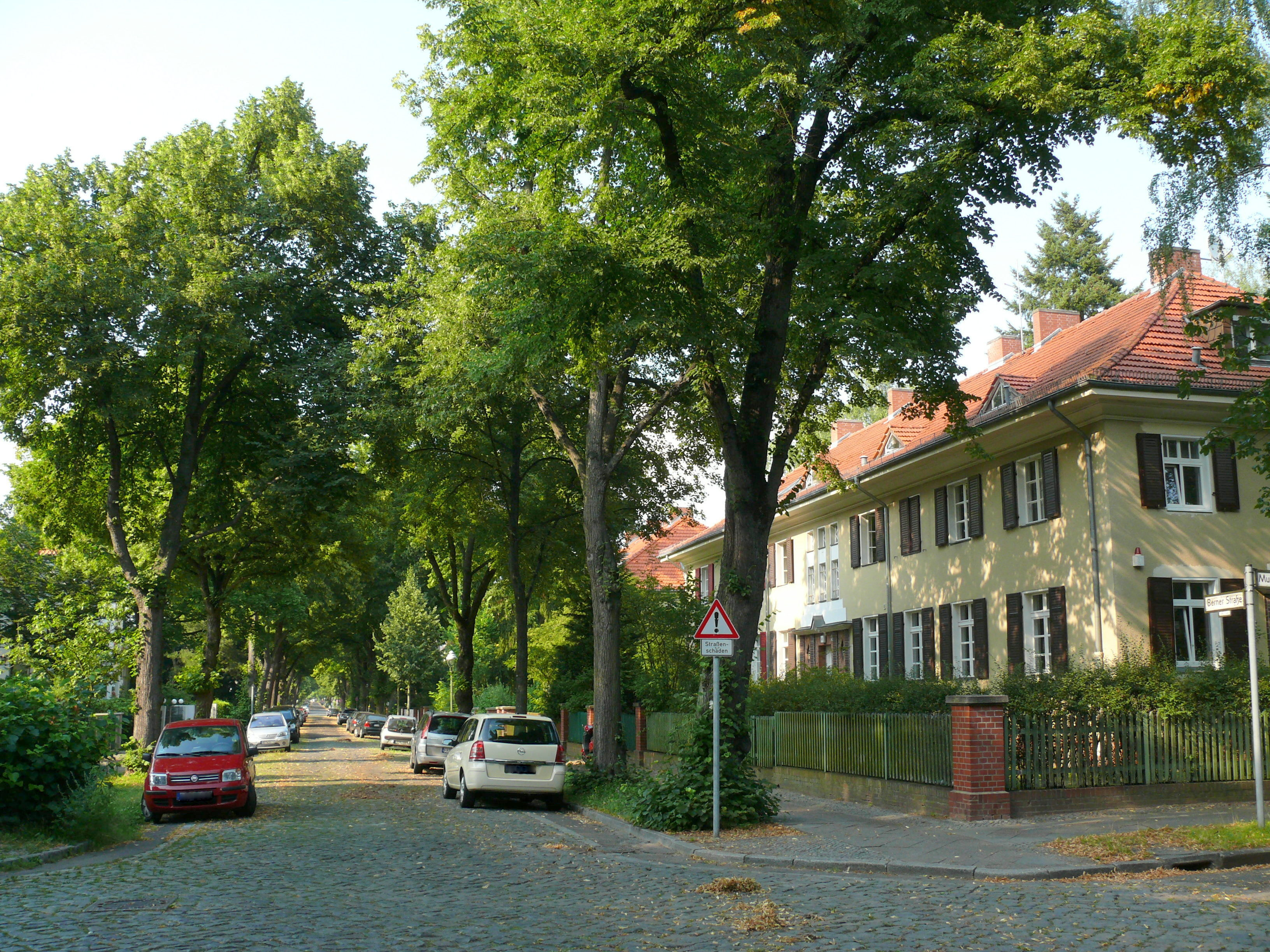 Berlin-Lichterfelde Berner Straße